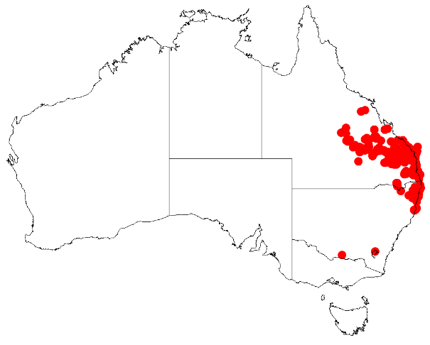 Acacia complanata Occurrence data from Australasia Virtual Herbarium downloaded from on 8 December 2018